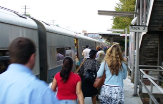 Tarrytown Metro North Station (cropped)